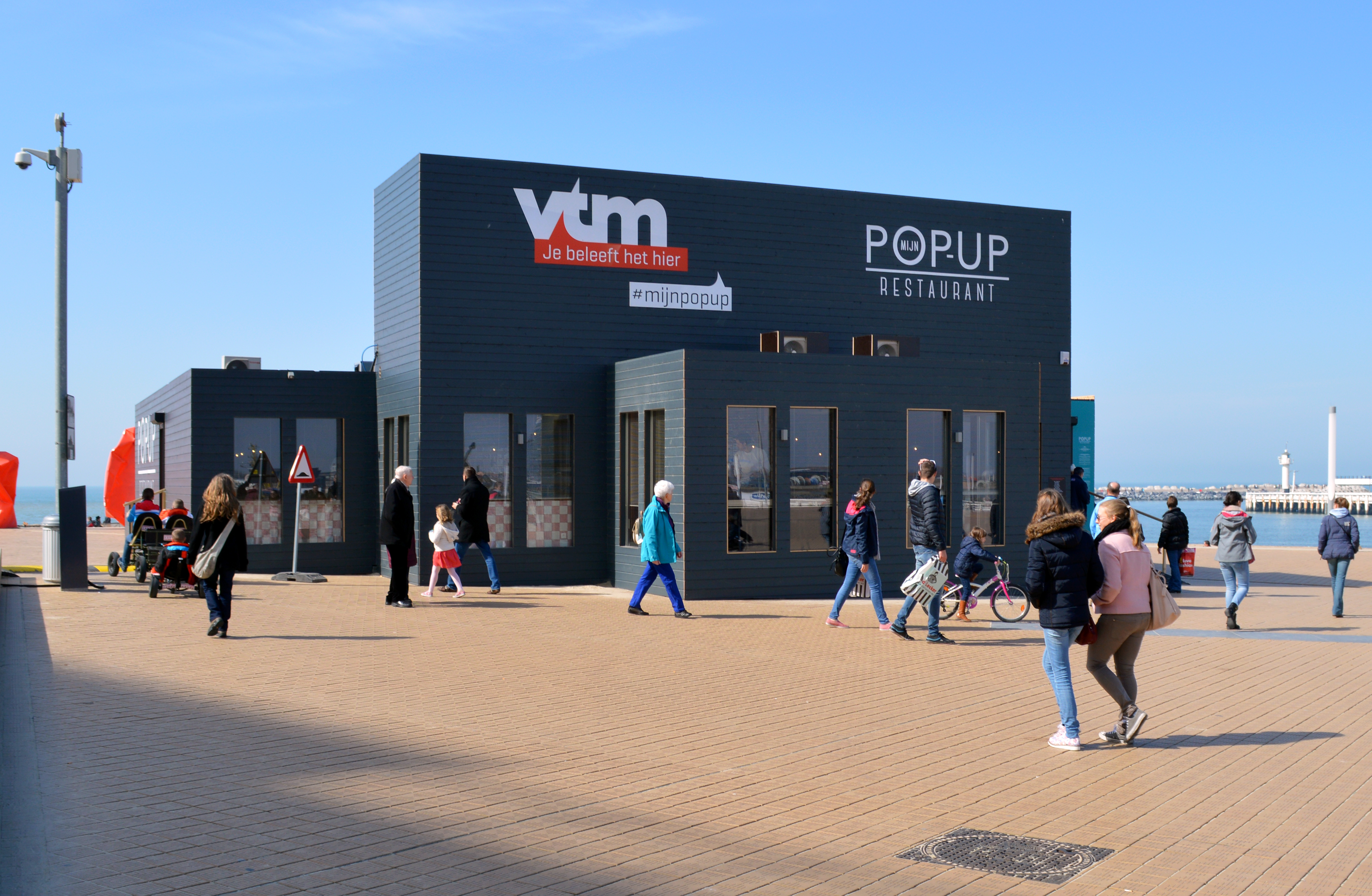 The pop-up restaurant "Buff" from the 2015 season of the Belgian VTM tv program Mijn pop-uprestaurant, in Ostend, Belgium.